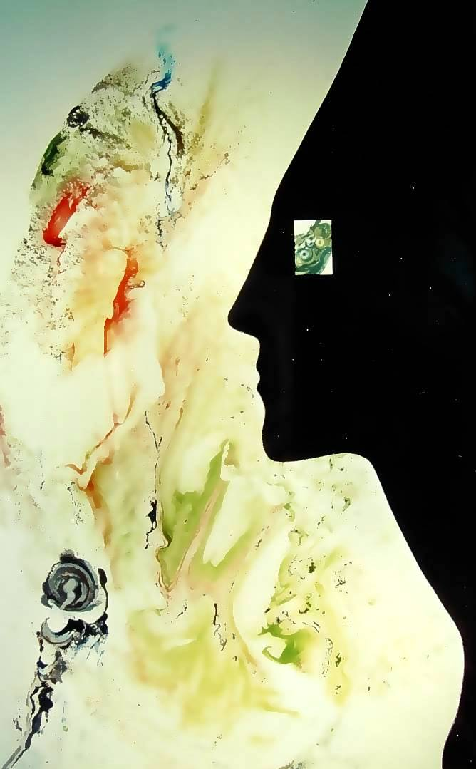 Mischtechnik gemalt von Josef Anton Geiser; 70x120 cm; 1973; Aus der vierten "Tale Phase"